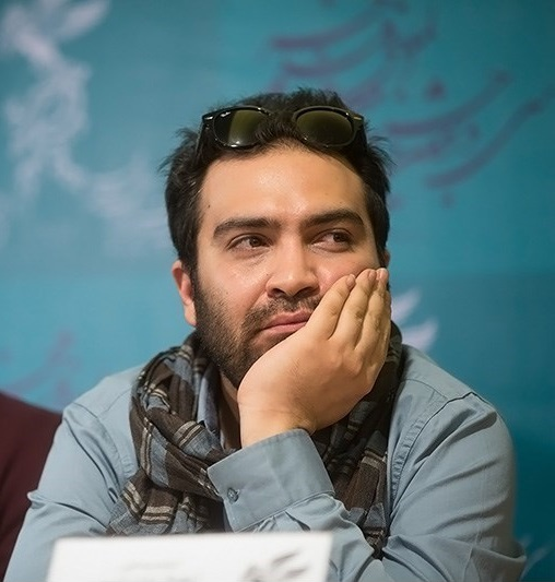 سومین روز سی‌وسومین جشنواره بین‌المللی فیلم فجر